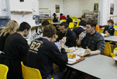 Montedomini's Self Service